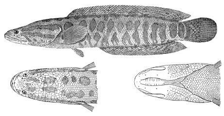 Drawing Channa argus entitled "After Berg, 1933", from USGS Circular 1251